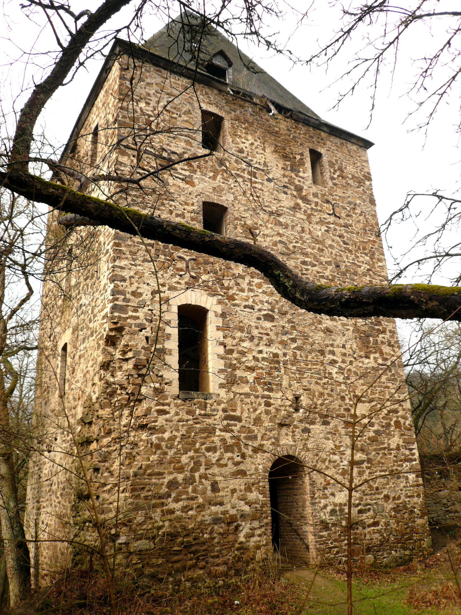 Castle Wensburg, Eifel